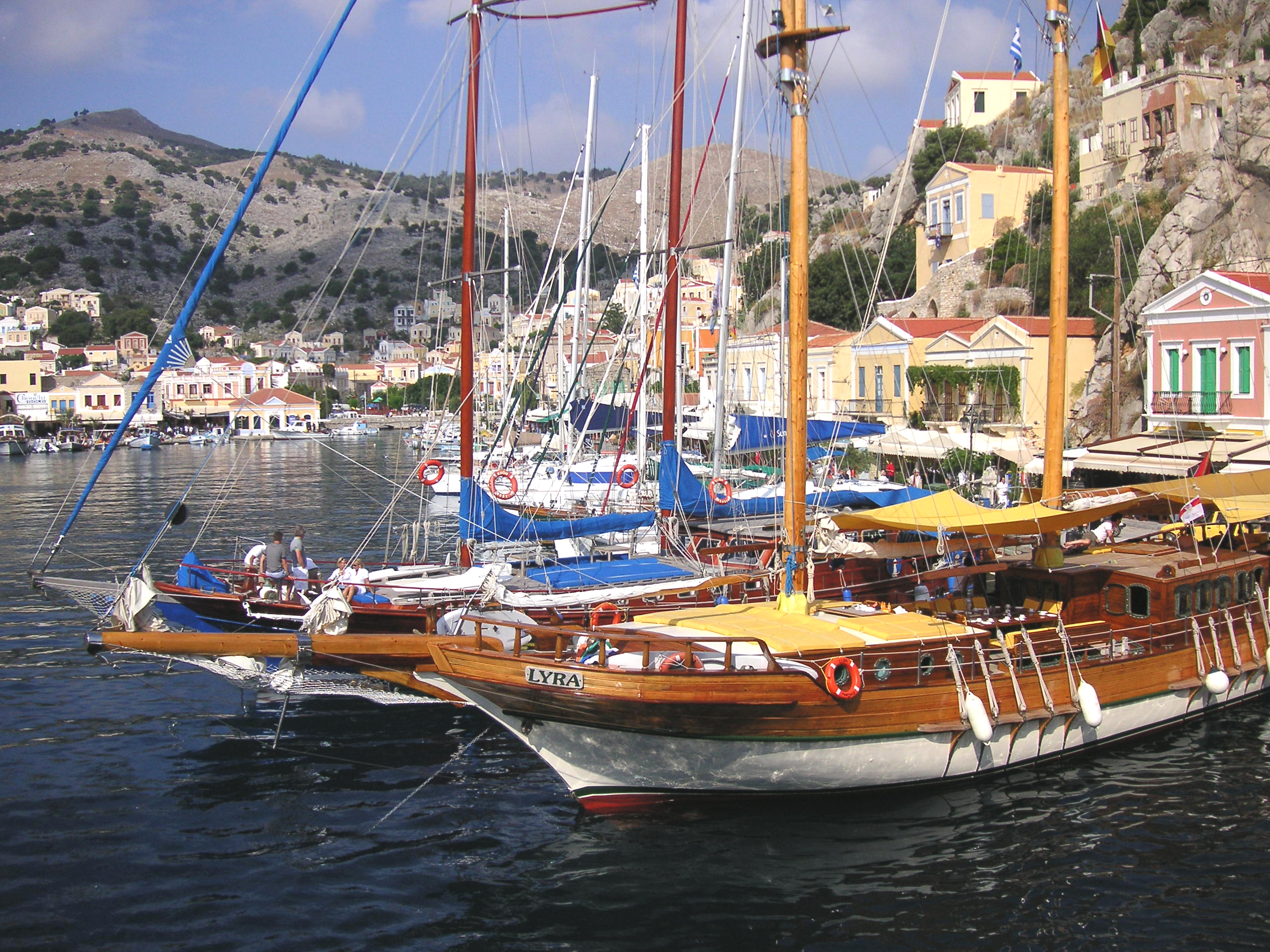 Harbor of Symi